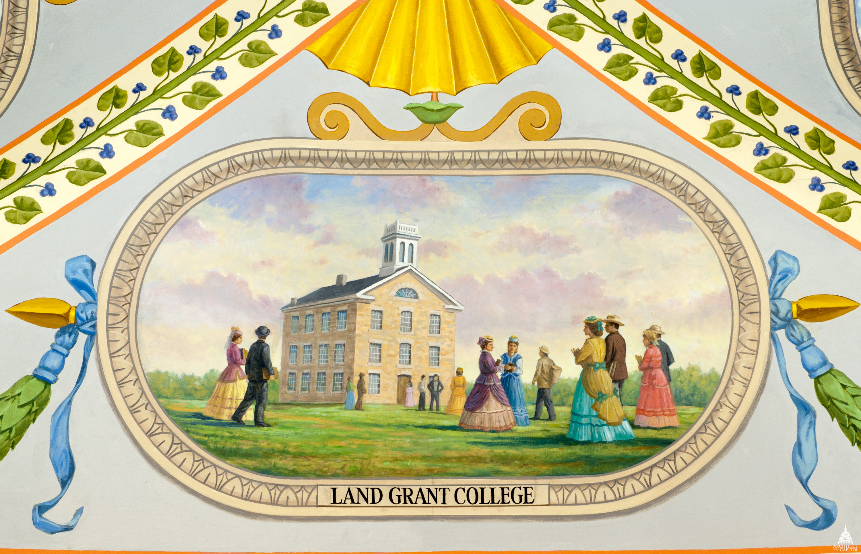 EverGreene Painting Studios Oil on Canvas 1993-1994 Westward Expansion Corridor Cox Corridors This college building in Kansas was one of the first created under the 1862 Morrill Act, which was meant to ensure higher education for all classes of Americans. This official Architect of the Capitol photograph is being made available for educational, scholarly, news or personal purposes (not advertising or any other commercial use). When any of these images is used the photographic credit line should read “Architect of the Capitol.” These images may not be used in any way that would imply endorsement by the Architect of the Capitol or the United States Congress of a product, service or point of view. For more information visit